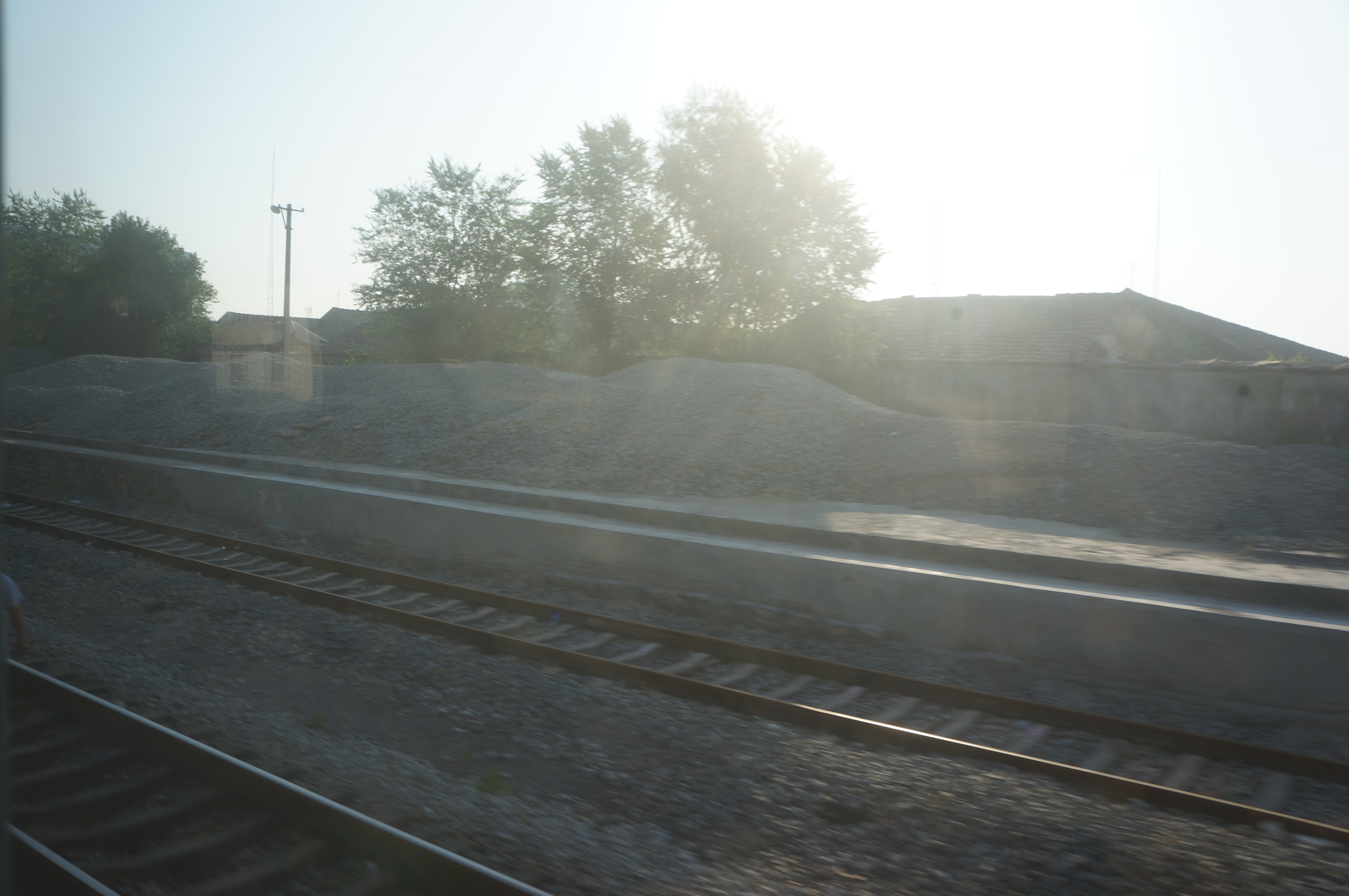 201705 Tracks at Wudian Station